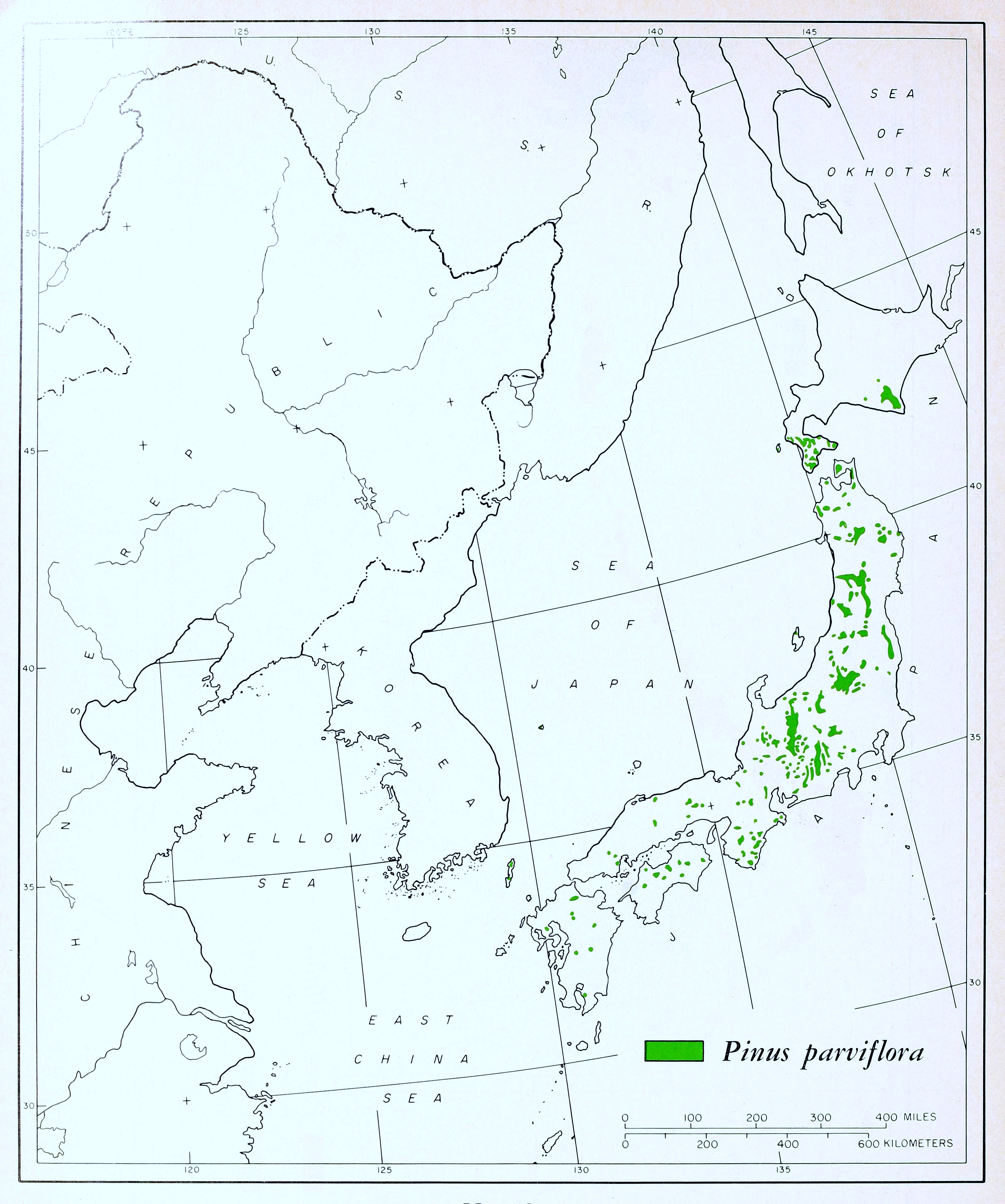 Map 13. Pinus parviflora distribution